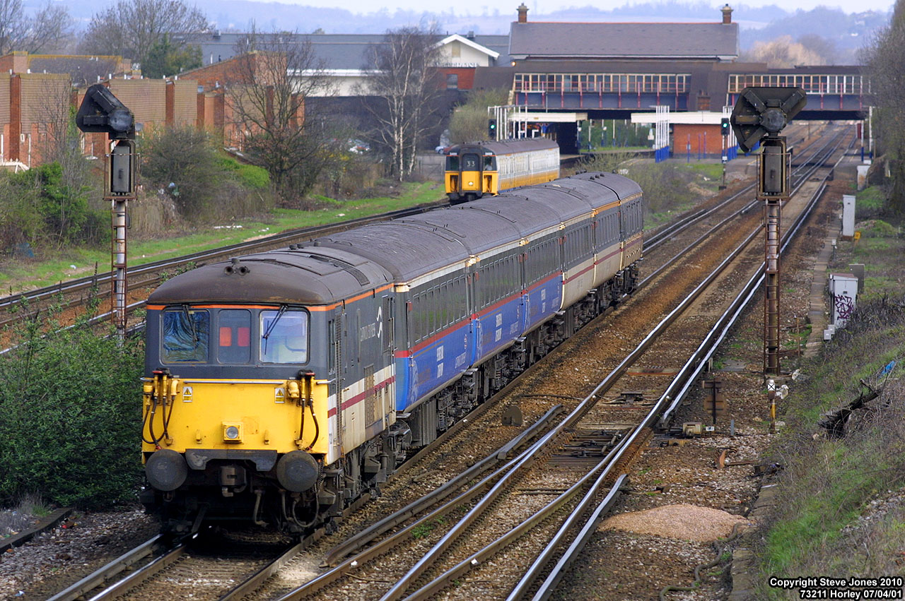 73211 at Horley on 07/04/01